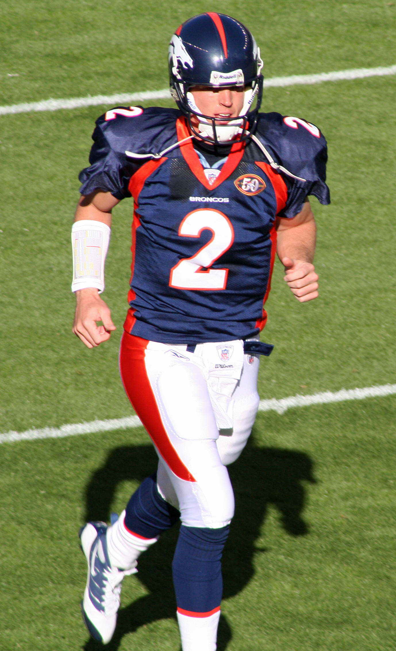 Simms with Denver